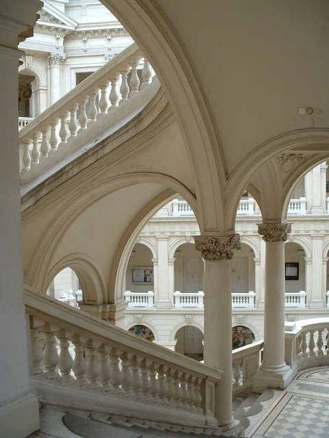 Interior from Warsaw University of Technology Author: Daniel Matysiak Free for use as long as credited.